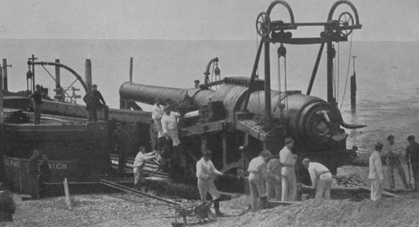 Photograph of Armstrong BL 16.25 inch naval gun ("110-ton gun") being offloaded from the War Department gun barge Gog at Shoebury Old Ranges in a Railway Proof Sleigh [1]